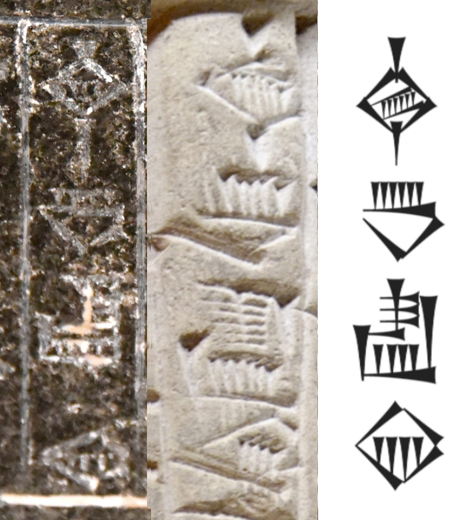 Gudea Lagashki inscription in linear script and cuneiform script on clay